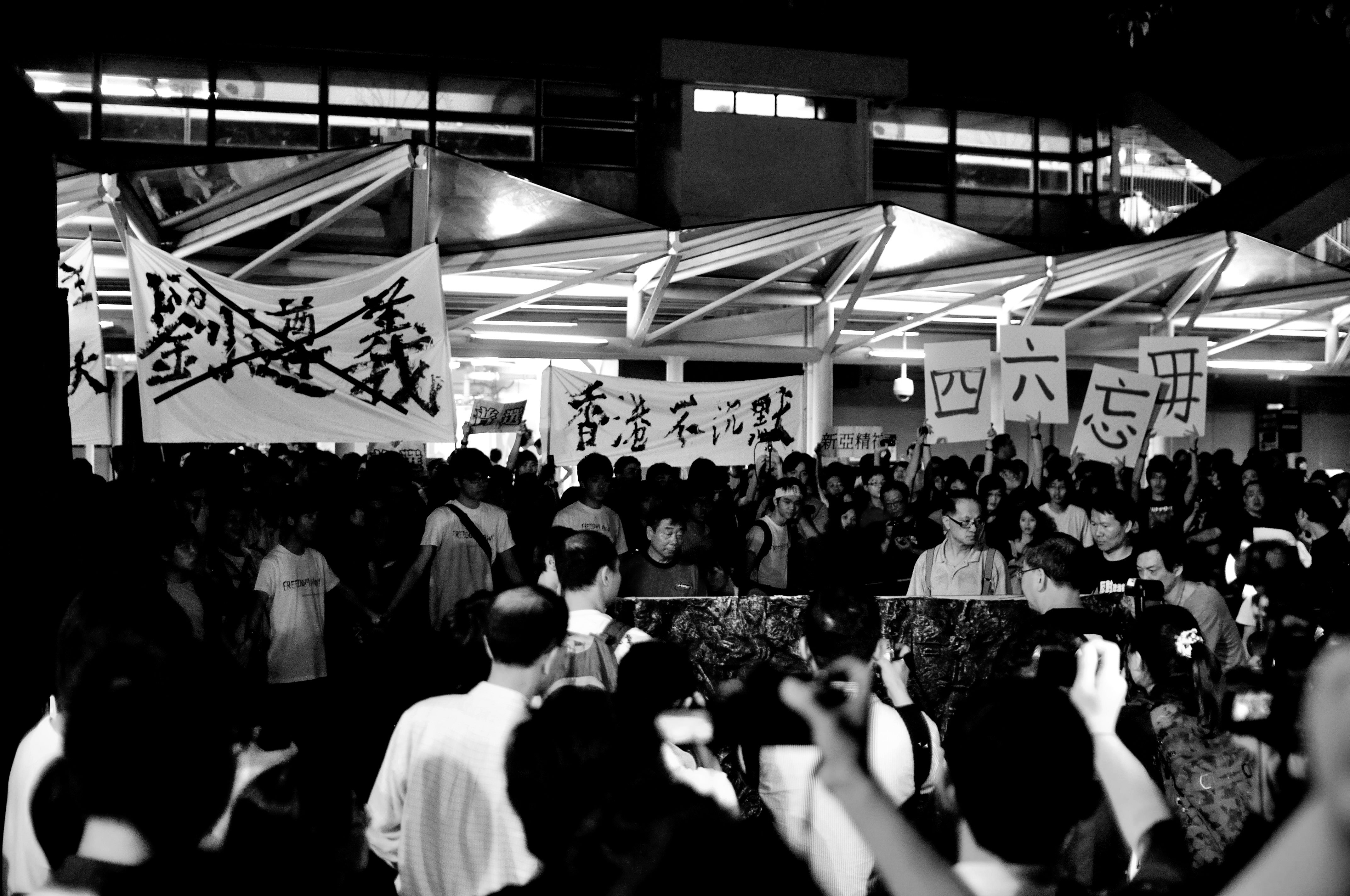 民主女神像 @ 中大 The Chinese University of Hong Kong about the event: 1) 2)